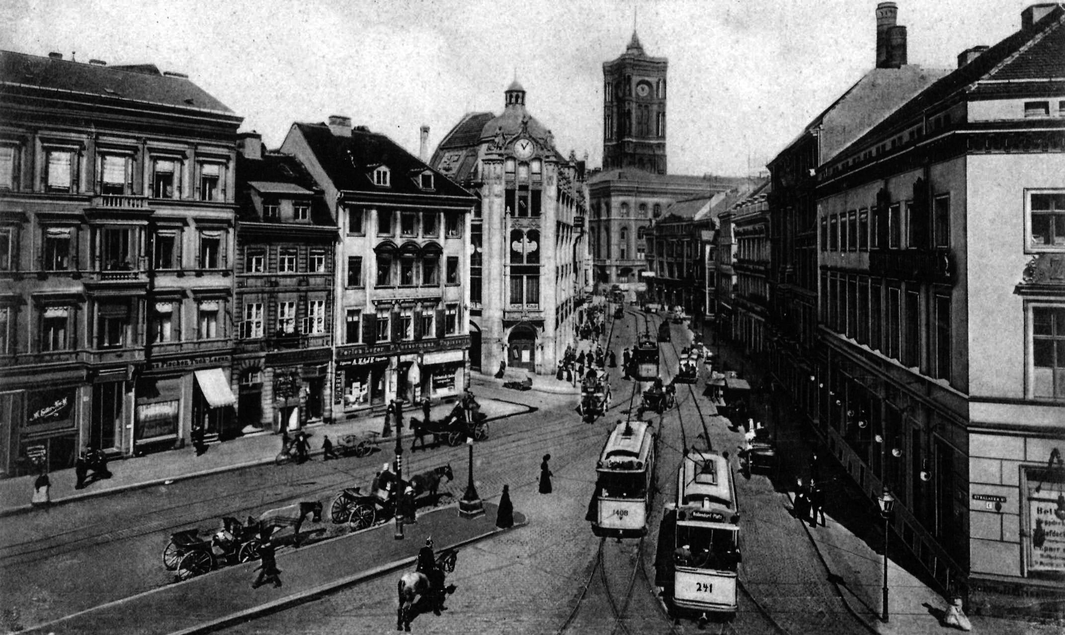 An old postcard from 1902 showing the Molkenmarkt (“dairy market”) in Old Berlin (now in Mitte district).